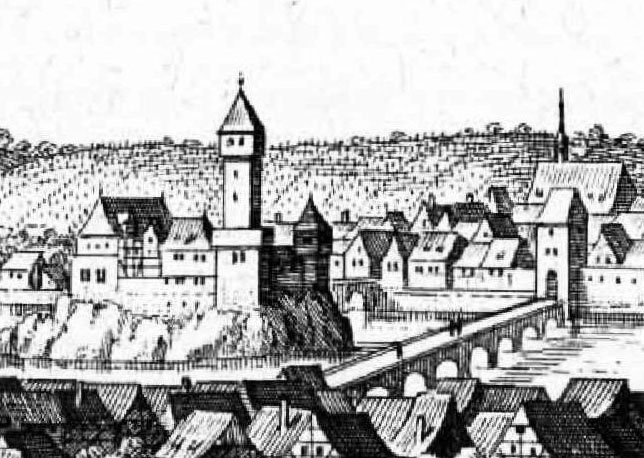 Old Neckar bridge at Lauffen am Neckar in about 1640. Illustration from Matthäus Merian's Topographia Sveviae, 1643/56